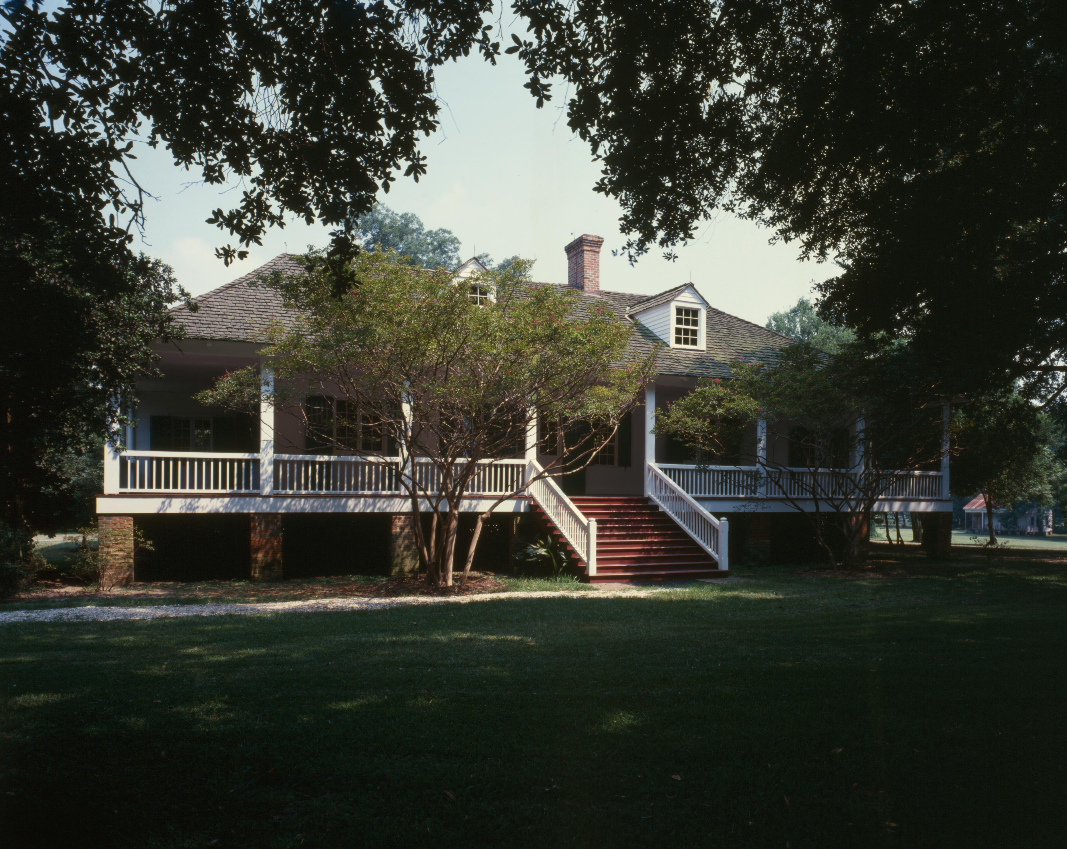 Front of the Magnolia Mound Plantation House, located at 2161 Nicholson Drive in Baton Rouge, Louisiana, United States. Built in 1786, it is listed on the National Register of Historic Places.